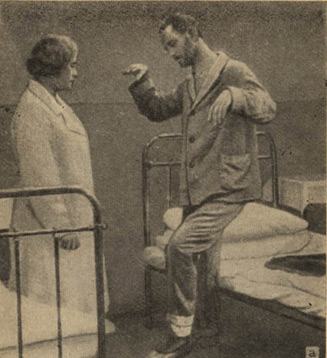 Сatatonic stupor